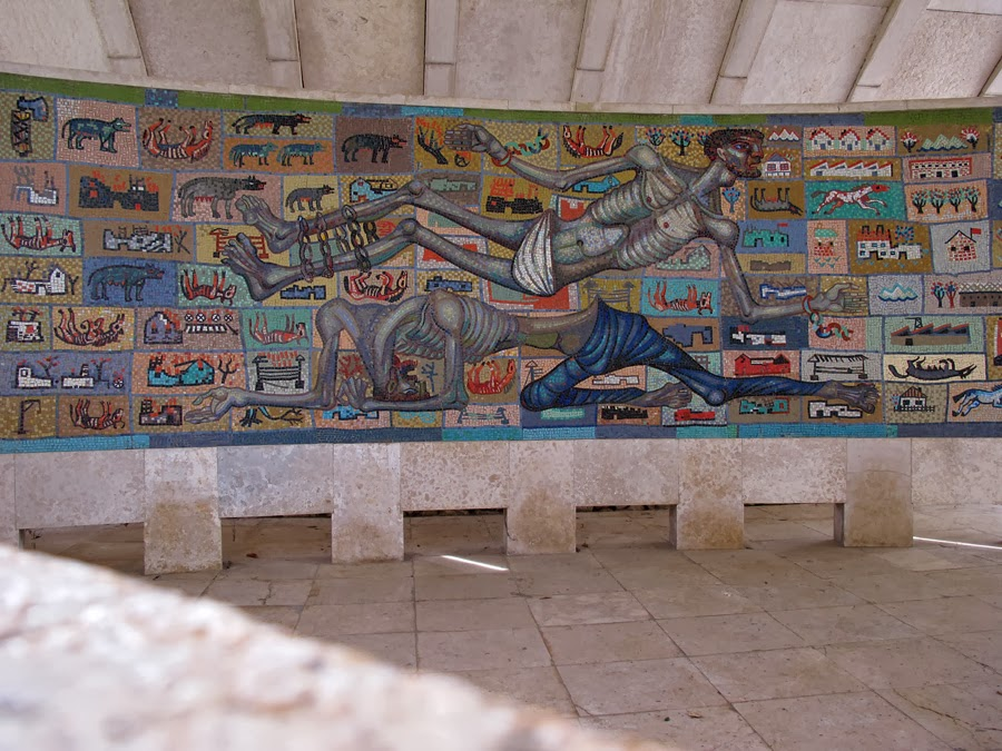 Kampor memorial area (Rab), view at the shrine with the mosaic.